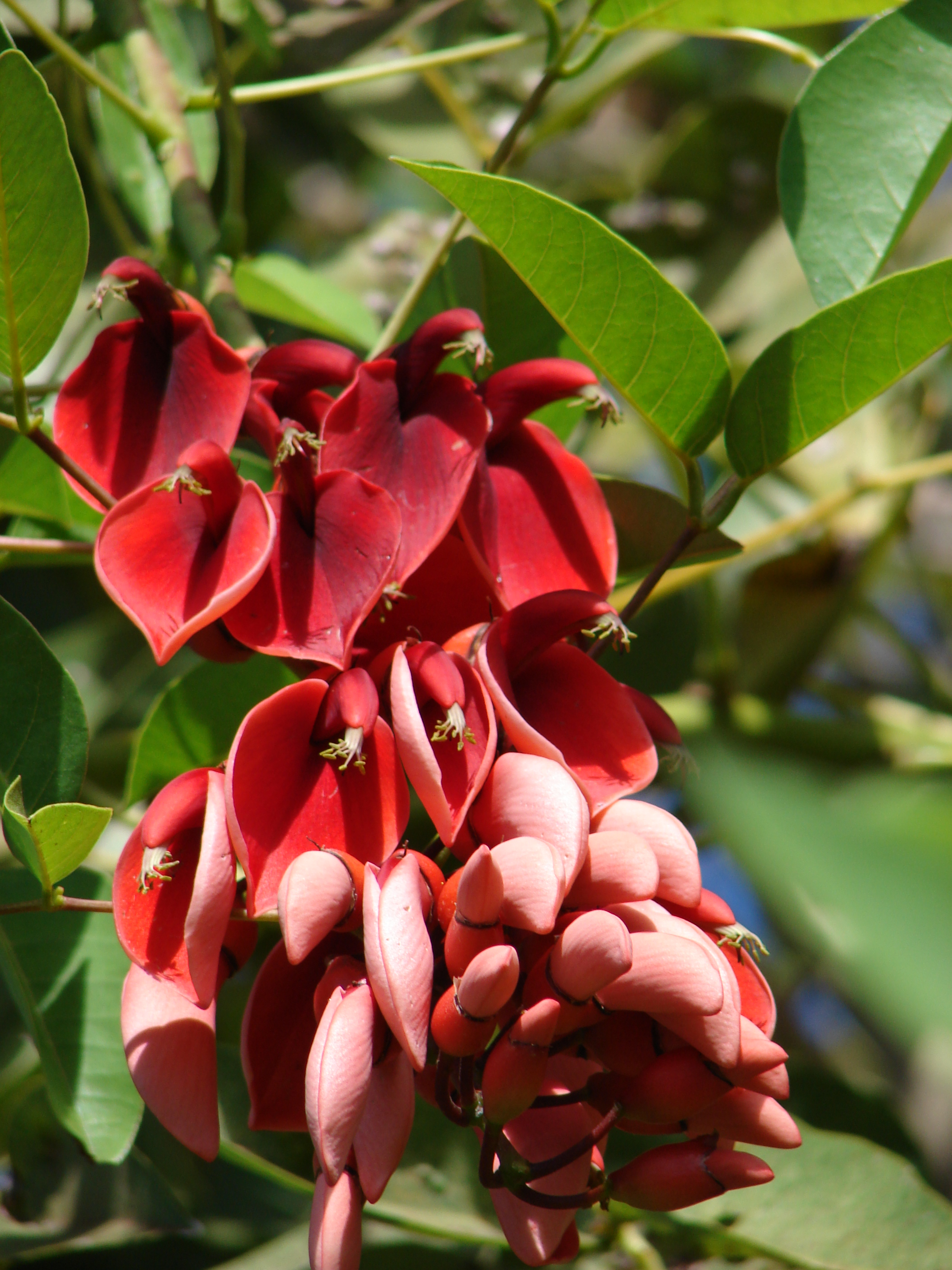 Erythrina crista-galli (leaves and flowers). Location: Maui, Kaanapali